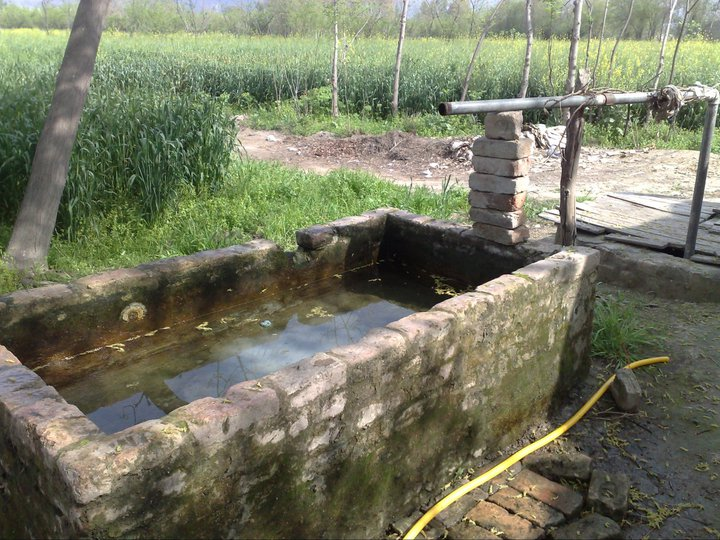 tube well in my village Mohmand Agency